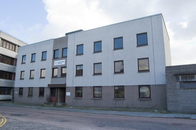 Health and Safety Executive offices A modest building with the grand name of "Lord Cullen House."